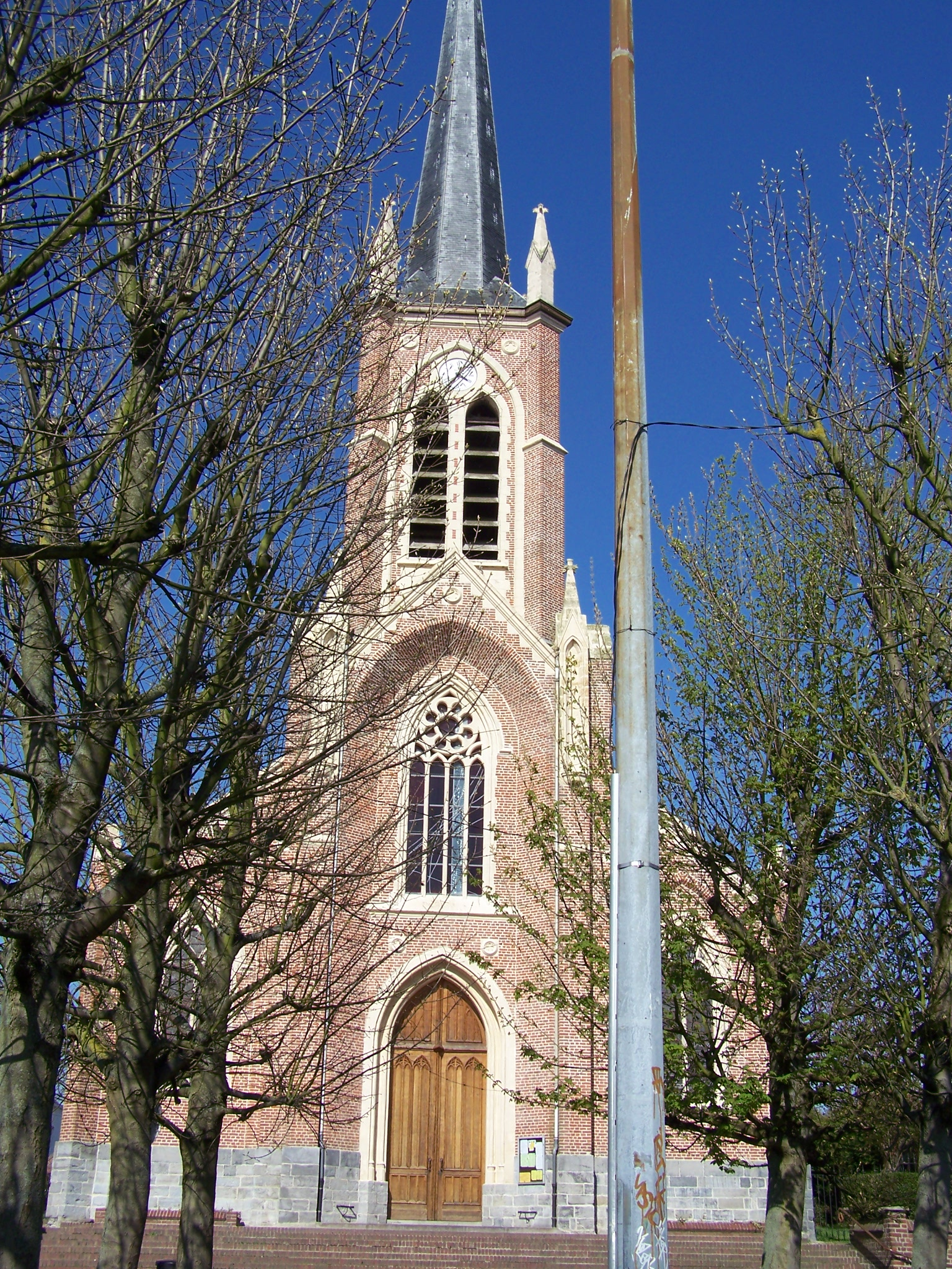 Church of Willems, North of France